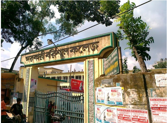 First gate of govt. barisal college